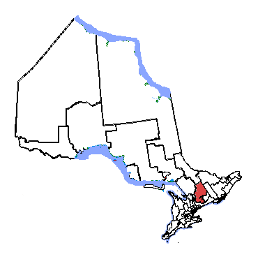 Map of the Haliburton—Kawartha Lakes—Brock electoral district. Based on Earl Andrew's maps, created by SimonP.